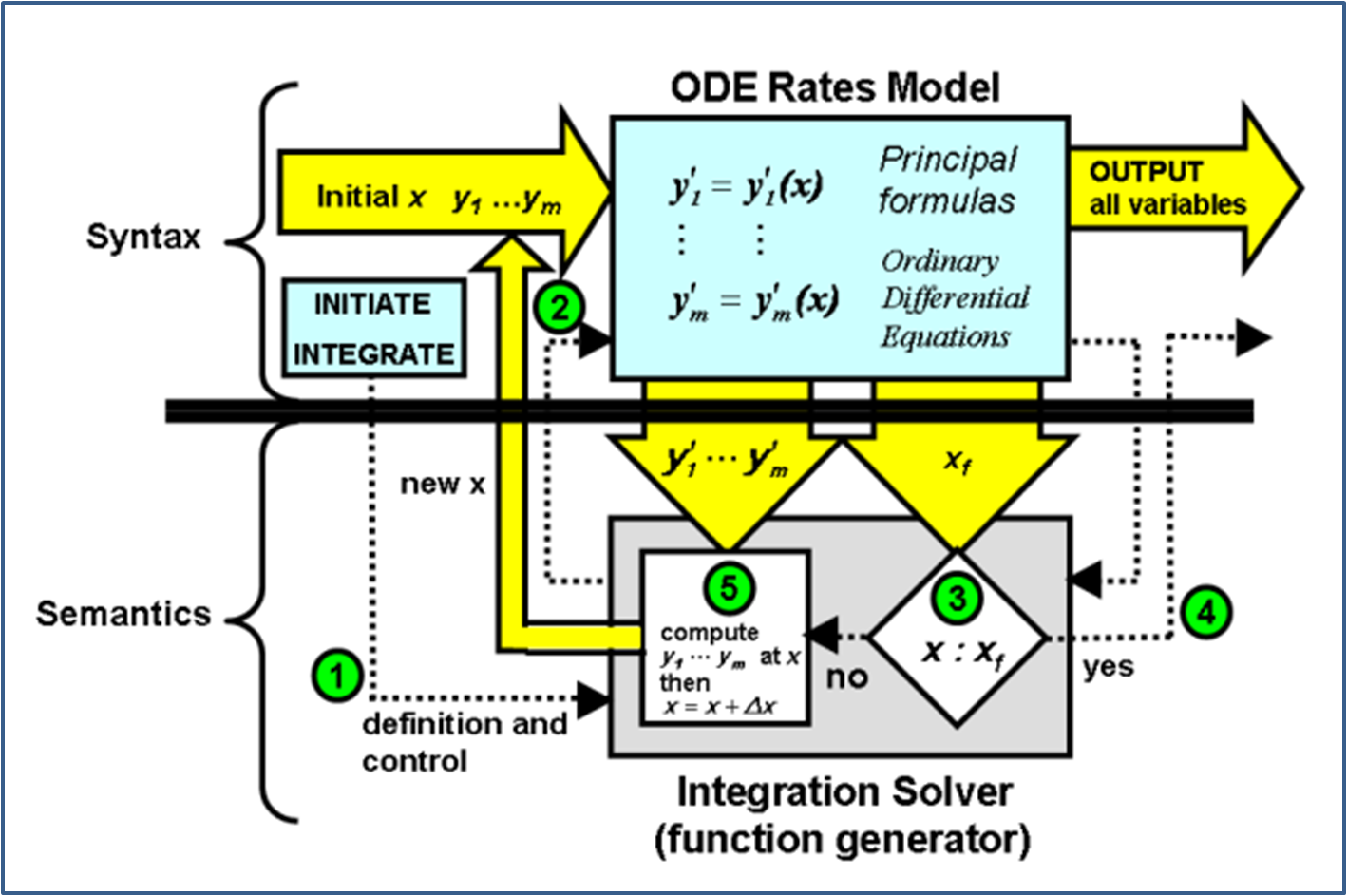 This is a syntax/semantics profile of an iterative MetaCalculus Simulation holon process.